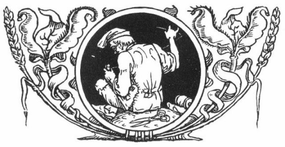 illustration of the Brothers Grimm fairy tale "The Straw, the Coal, and the Bean"